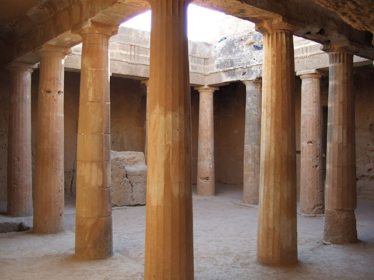 Paphos, CiproCourtyard